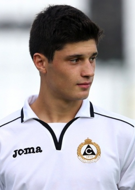 Bulgarian Defender playing for Slavia Sofia FC